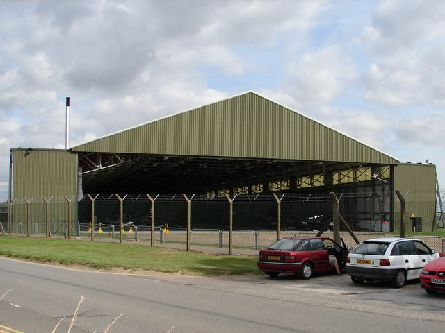 Battle of Britain Memorial Flight Hangar At RAF Coningsby. Home to a Lancaster, five Spitfires, two Hurricanes, a Dakota plus a few Chipmunks.